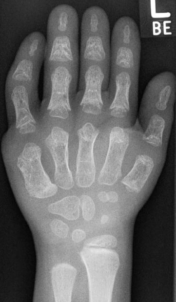 Ellis–van Creveld syndrome, X-ray left hand with ossification abnormalities os hamatum, cone-shaped epiphyses